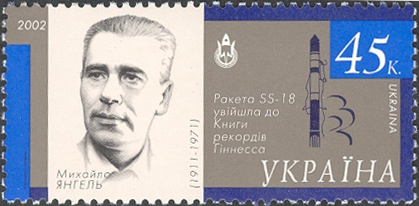 Stamp of Ukraine